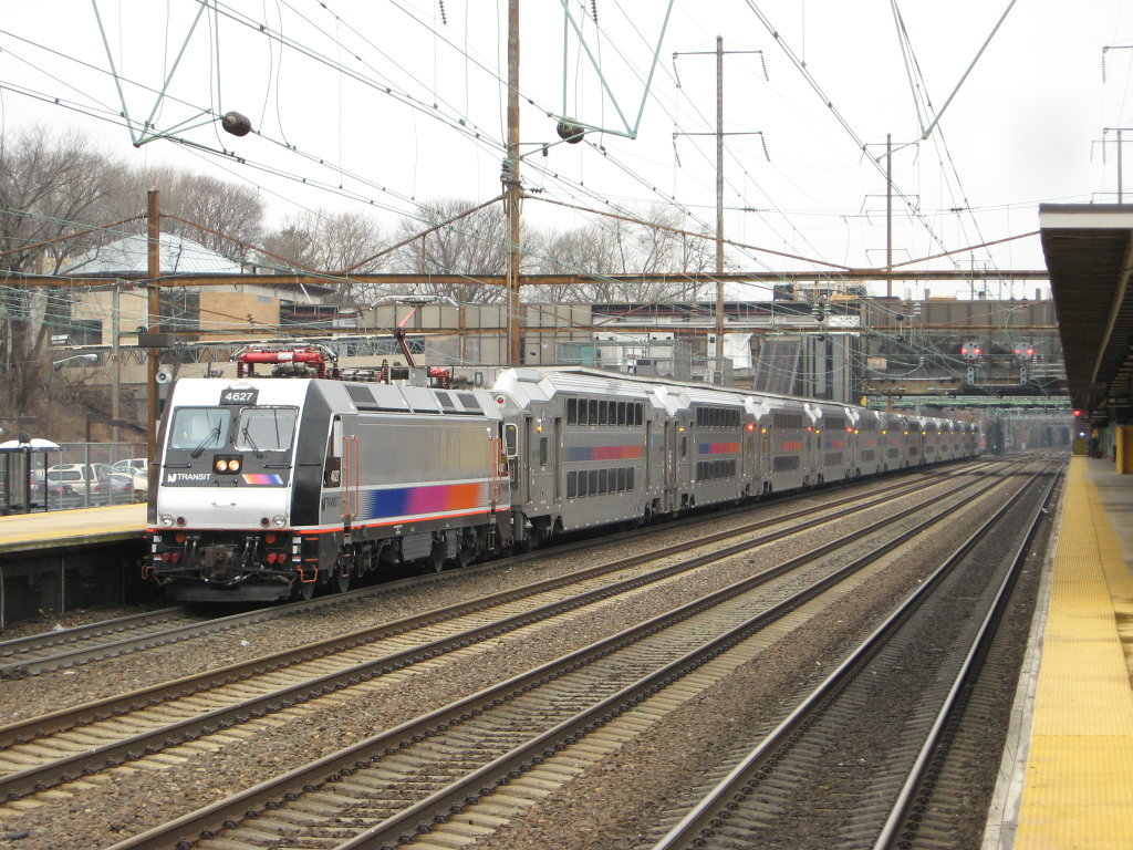 Train #3952, composed of 12 Bombardier Multi-Level vehicles (MLVs) led by Bombardier ALP-46 #4627 (with a second locomotive pushing), waits to depart Trenton.